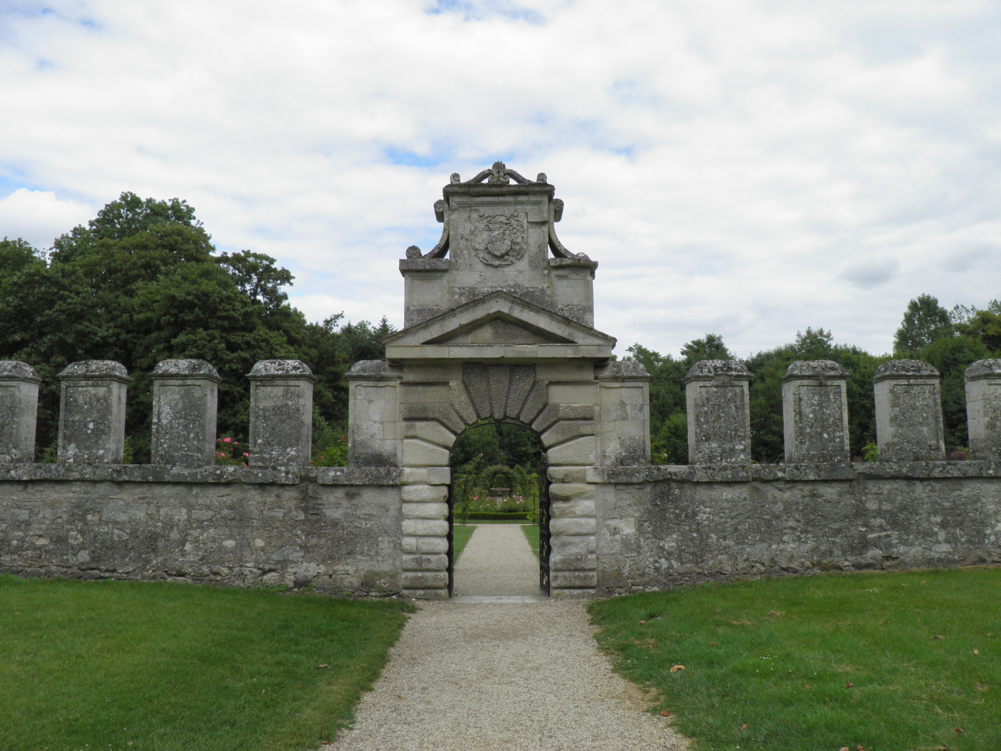 Gate of the Rose Garden of Chaalis Abbey. Attributed to Sebastiano Serlio.